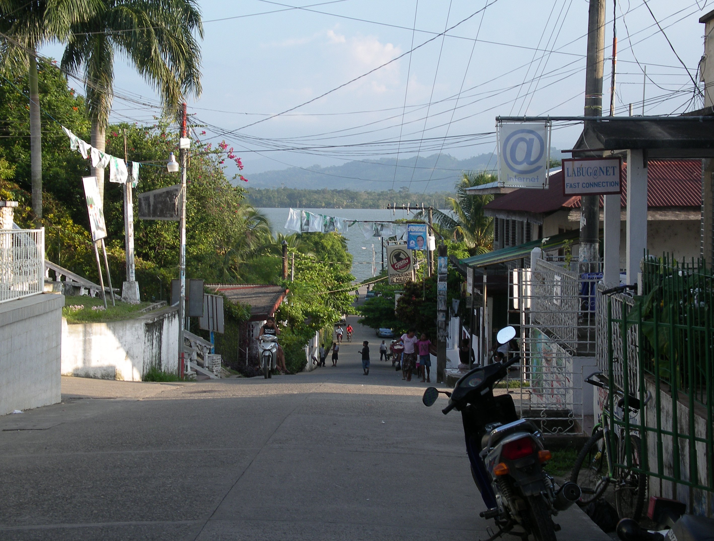 Main street of Livingston, Guatemala. Facing towards the mouth of the Rio Dulce.